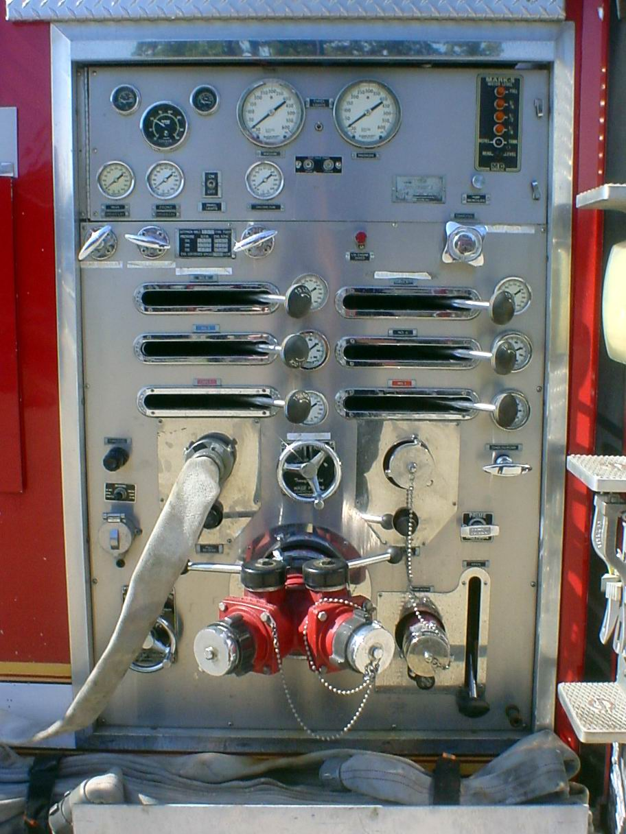 Detail of control panel on 1987 Sutphen fire engine, photographed October 11, 2009 by Adolphus79.